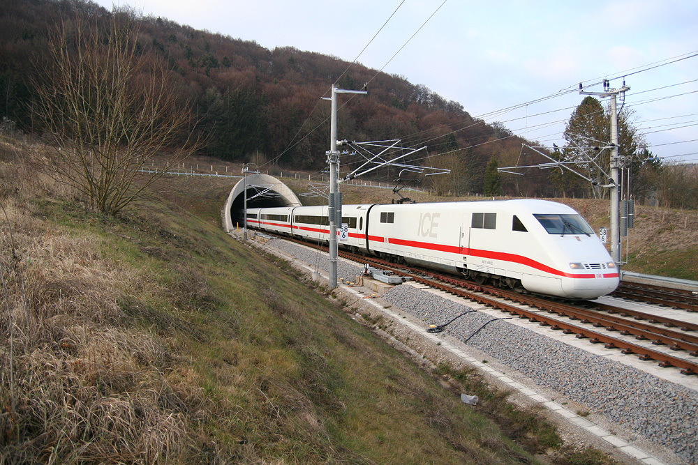 A ICE 1 high-speed trains leaves the Schellenberg-tunnel at the Nuremberg-Munich high-speed track in order to pass through the station of Kinding at full speed.